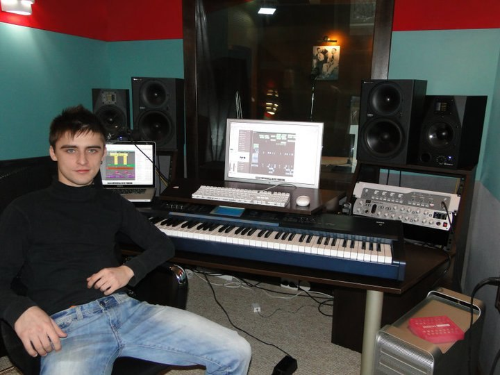 Nazariy Guk